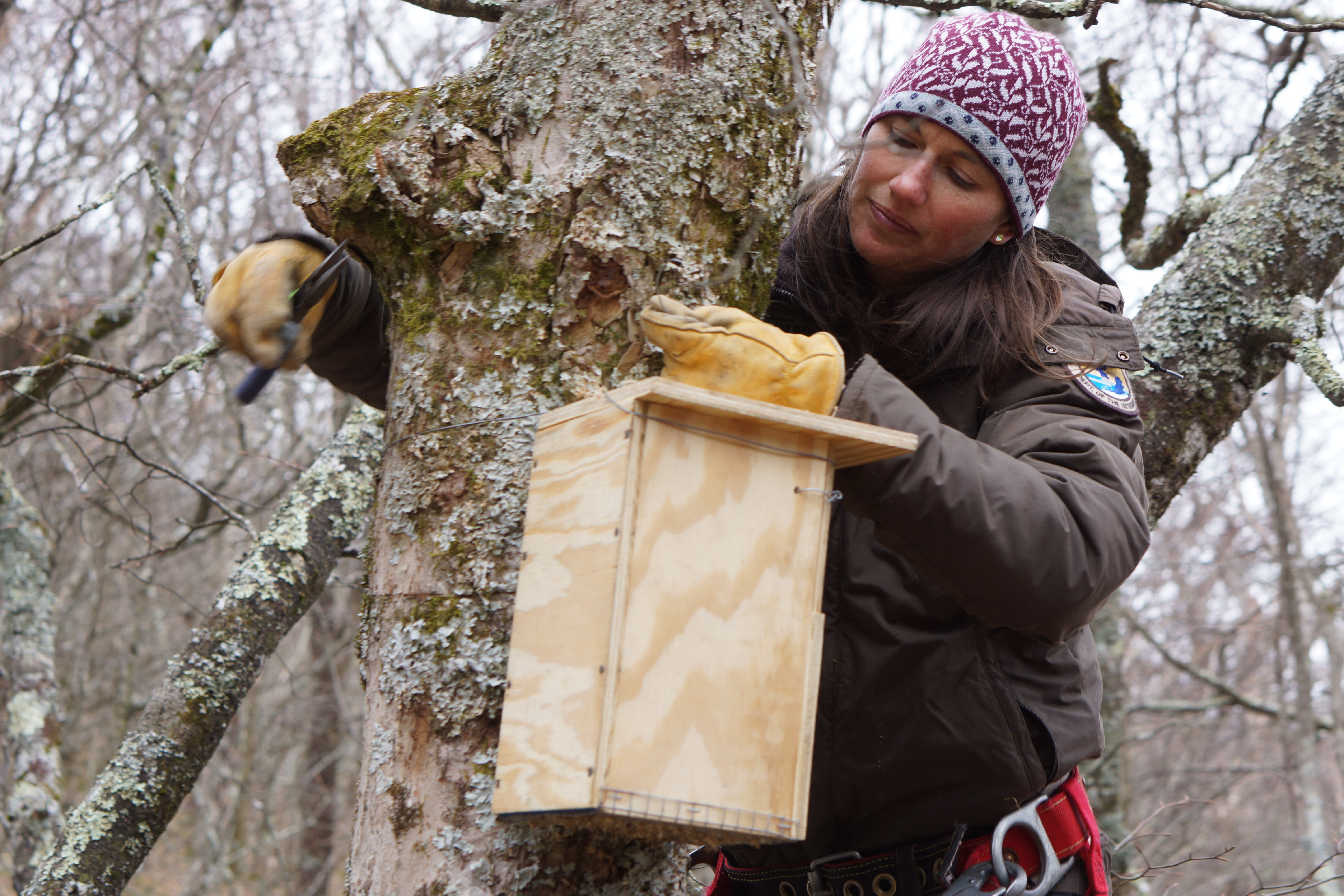 The Carolina northern flying squirrel is a cold-weather animal descendent from the northern flying squirrels pushed south by the ice sheets that covered northern latitudes during the last ice age. When the ice sheets receded, some of these squirrels found refuge on the tops of our highest mountains. Over the millennia, these squirrels differentiated from their northern cousins and today are a subspecies found only in the Southern Appalachians where northern hardwood forests give way to spruce-fir forests. One of the main ways biologists track populations of these squirrels is to provide nesting boxes, mounted high in trees, which are periodically checked to see if they’re occupied. If Carolina northern-flying squirrels are found using the boxes, those individuals are tagged, weighed and measured. On this day, the Service’s Sue Cameron joined Dottie Brown of the N.C. Wildlife Resources Commission to check a series of boxes off the Blue Ridge Parkway. Unfortunately no squirrels were found on this snowy day, but the trip provided the biologists an opportunity to replace degraded nest boxes.